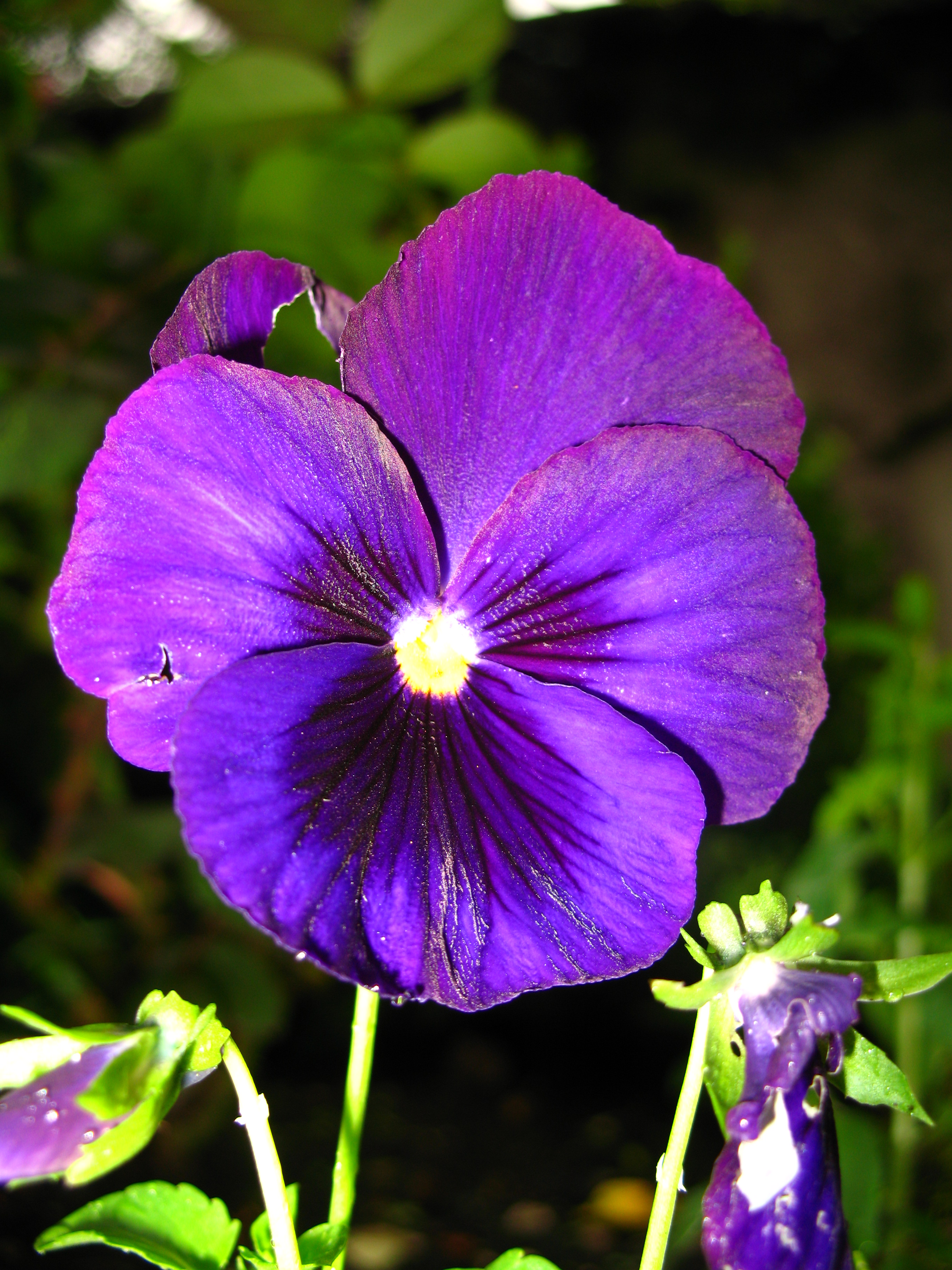 Viola flowers at the Abbey Church of Saint Peter, Salzburg, Austria